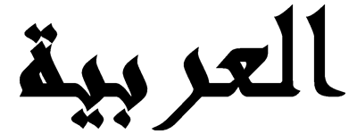 The word Arabic:(العربية al-‘arabiyyah) written in Kufic script.